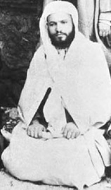 Muhammad al-Ashmar posing with other rebel leaders (cropped out) in al-Midan quarter, Damascus